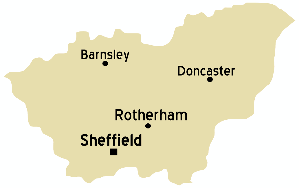 Map of South Yorkshire Source: :Image:UK map.svg map: United Kingdom Map of: United Kingdom